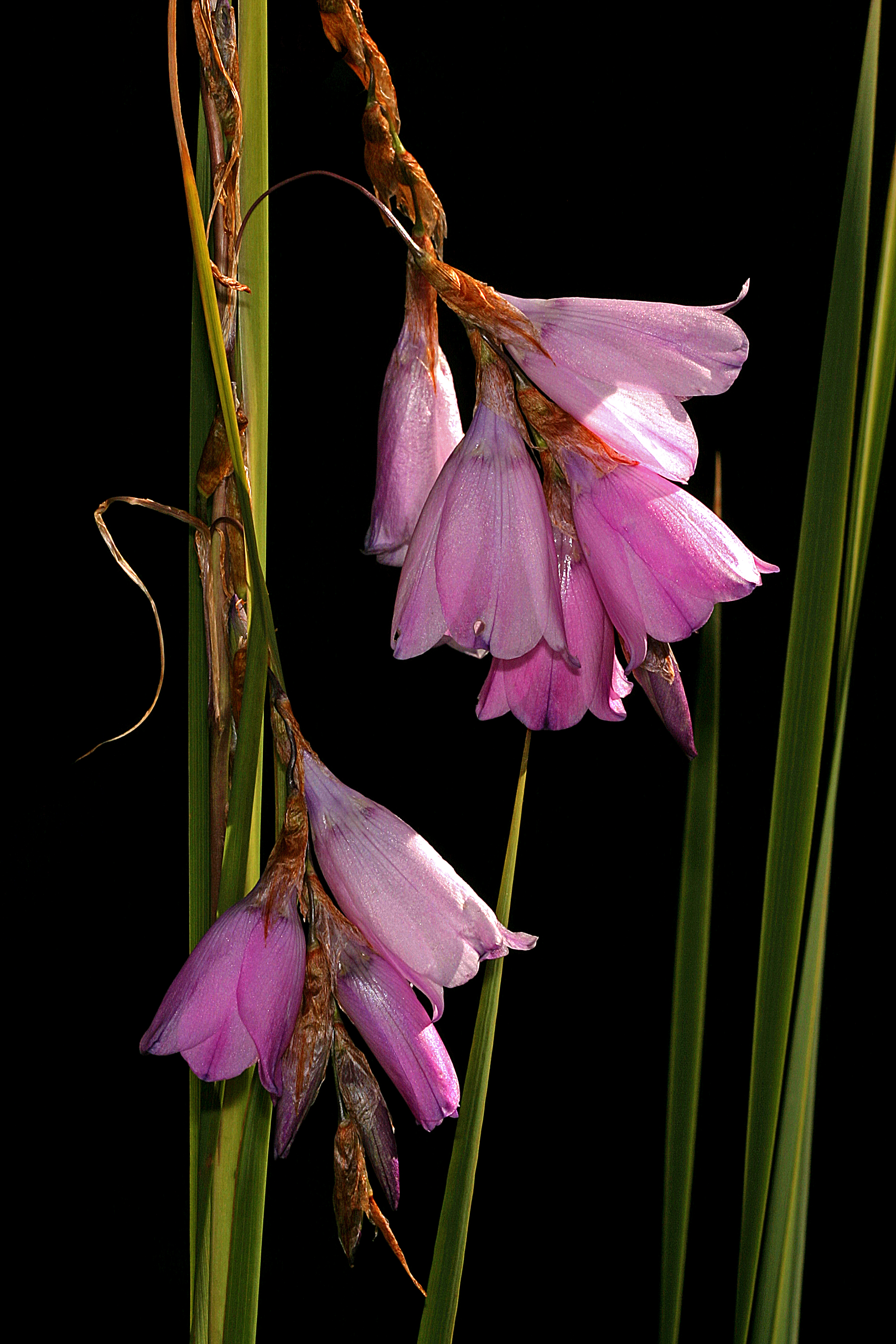 Dierama pendulum, flowers; Kirstenbosch National Botanical Garden, Cape Town, Western Cape, South Africa